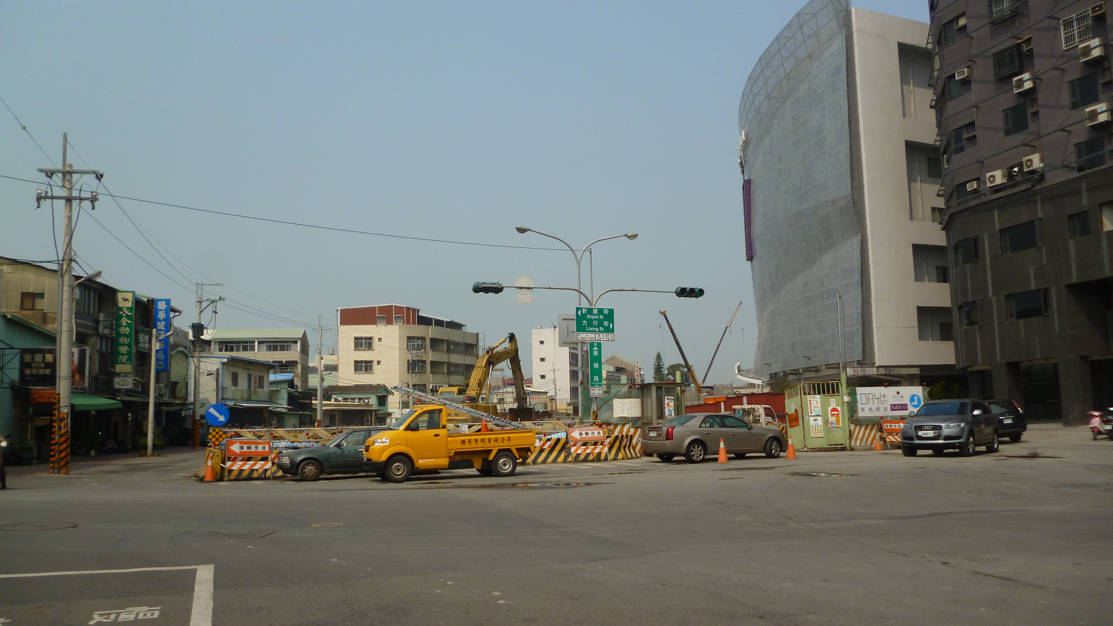 Gong Dao Yi-03